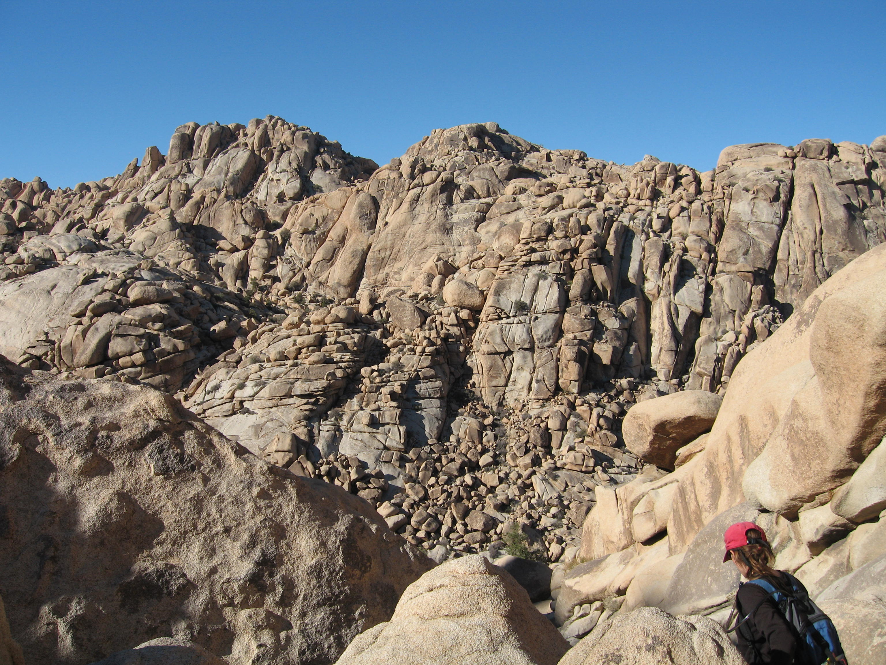 Hiking in Joshua Tree National Park: Exploring Wonderland of Rocks